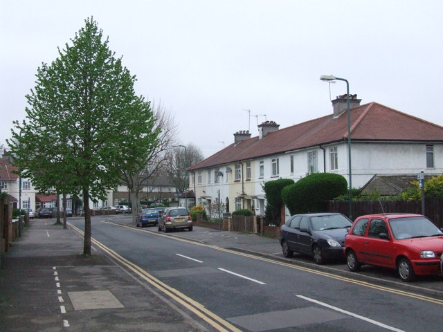 Normansmead, Church End, Neasden